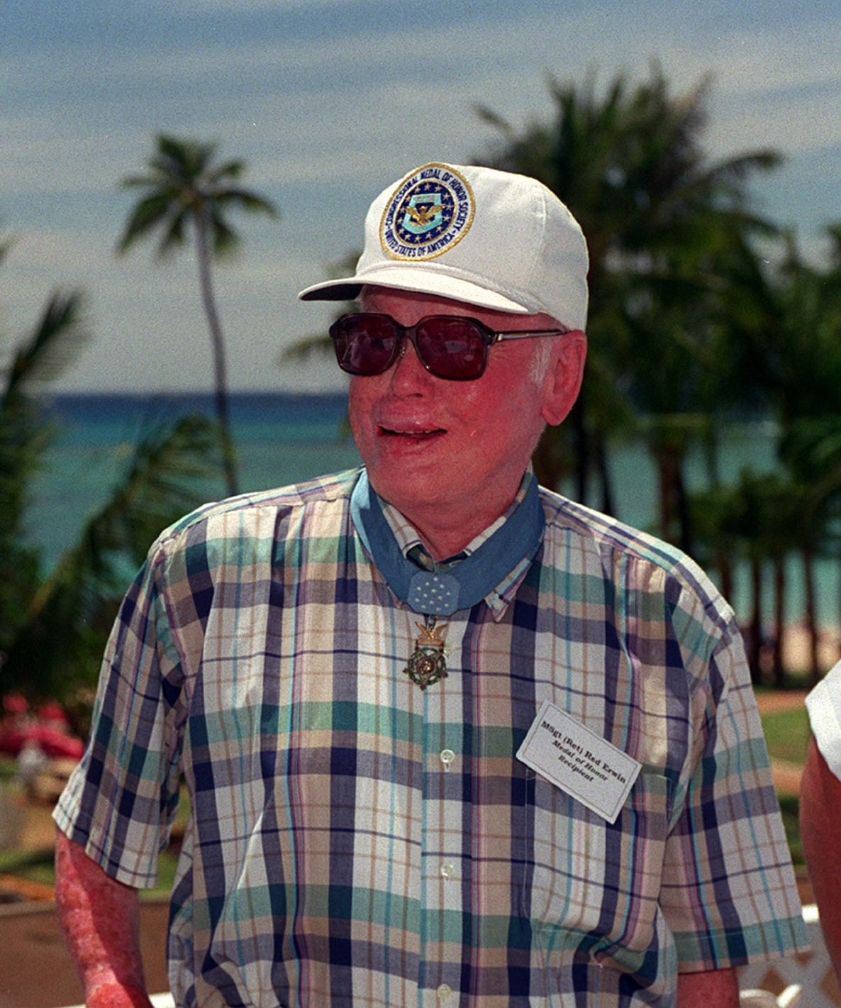 Medal of Honor recipient Henry E. "Red" Erwin, wearing his Medal, at Hickam Air Force Base, Hawaii, for the 50th anniversary commemoration of the end of World War II.